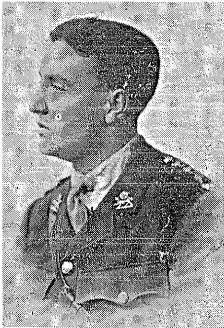 A young Eric Lawrence Moxey